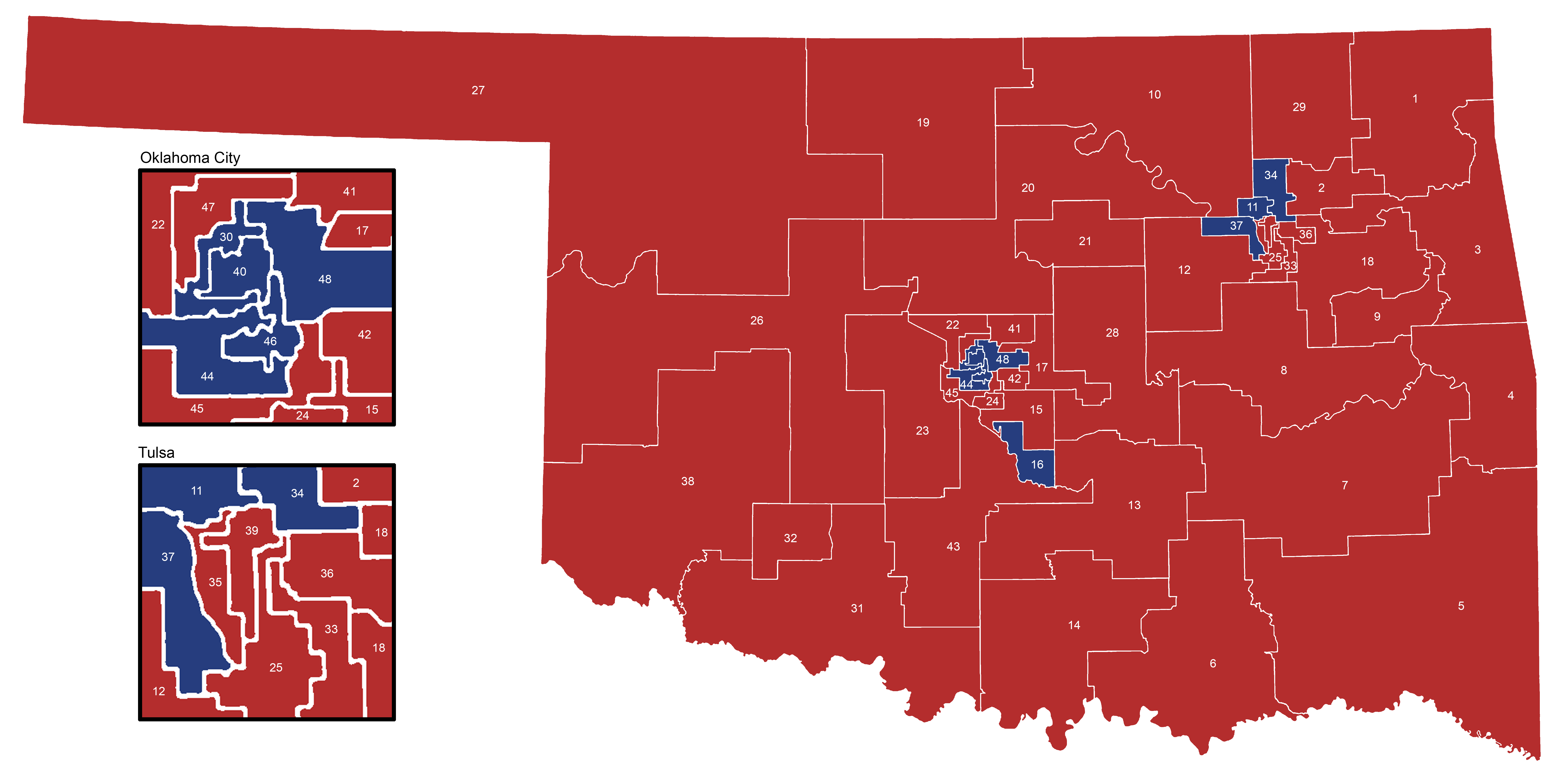 Oklahoma Senate districts after the November 6, 2018 elections.